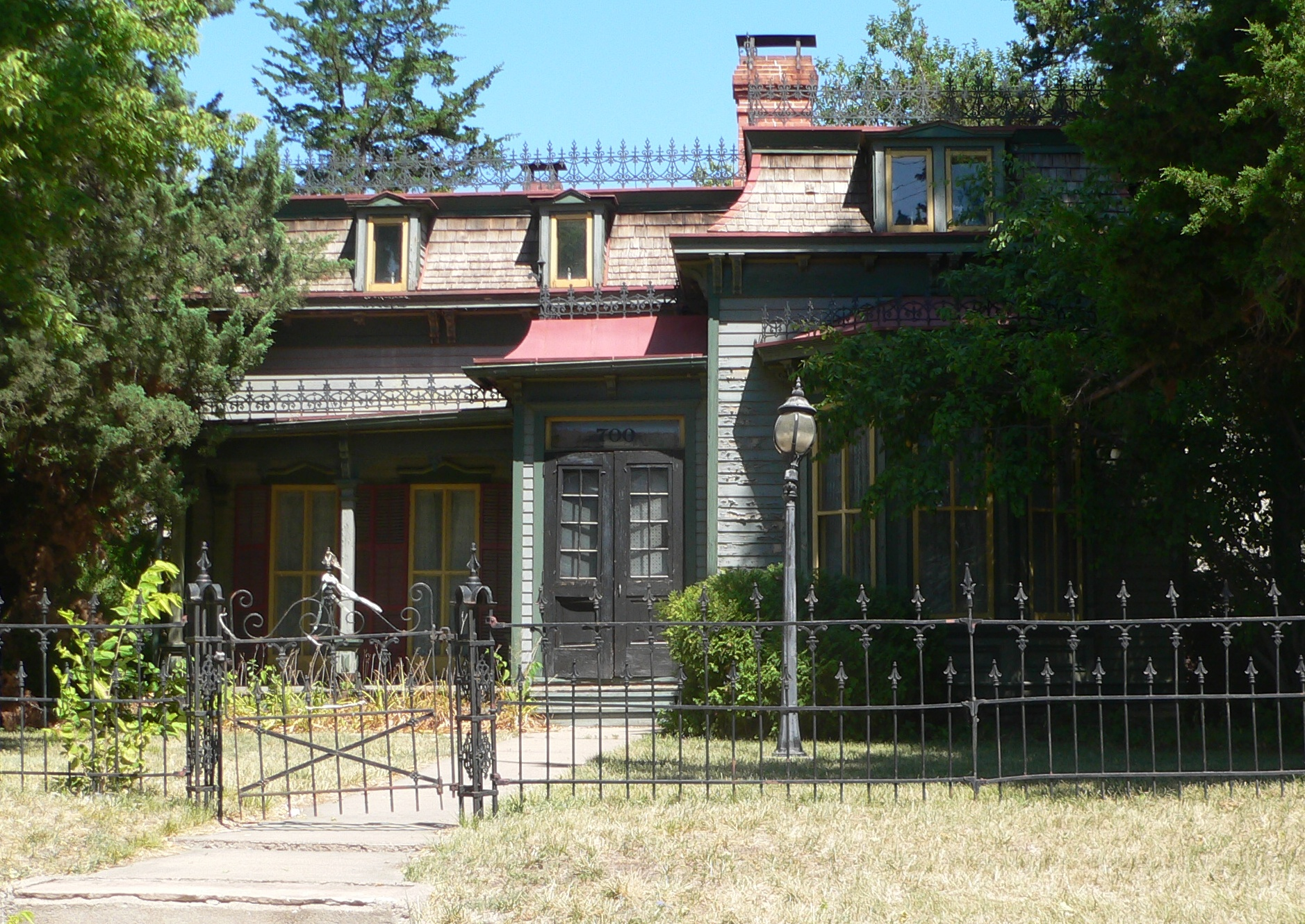 Lewis-Syford house, located at 700 N. 16th Street in Lincoln, Nebraska, on the University of Nebraska campus; seen from the west.